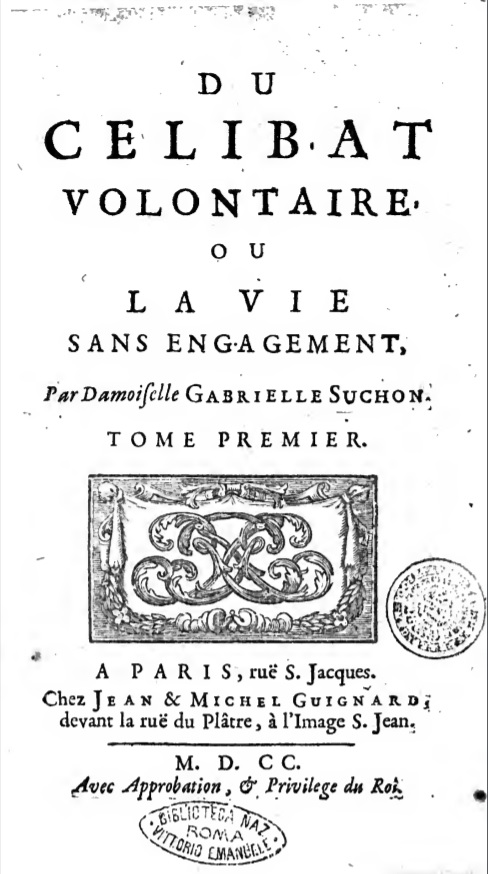 Copy of Du Celibat Volontaire, Gabrielle Suchon's second work